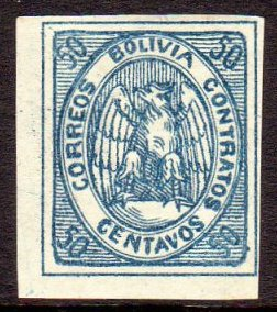 Bolivia 1867 50c Condor SG11.